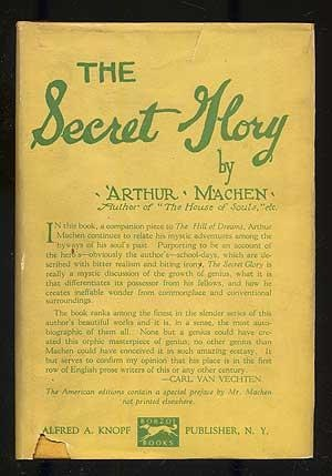 Cover image of The Secret Glory by Arthur Machen (New York: Knopf, 1922)